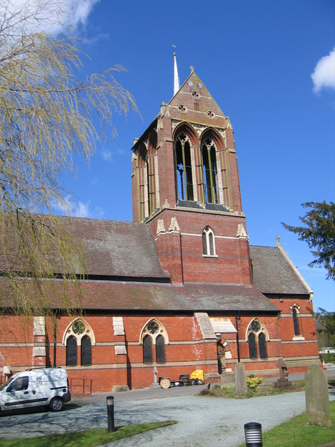 Crossing tower of the former parish church of St Mary, Wythall, Worcestershire, seen from the south. The church building is now redundant and the van and the cable drums are evidence that it is now used by a firm of electrical contractors. The current occupants have maintained the major internal features and repaired the structure of the building. St Mary's congregation now meets in Coppice Primary School in nearby Hollywood.